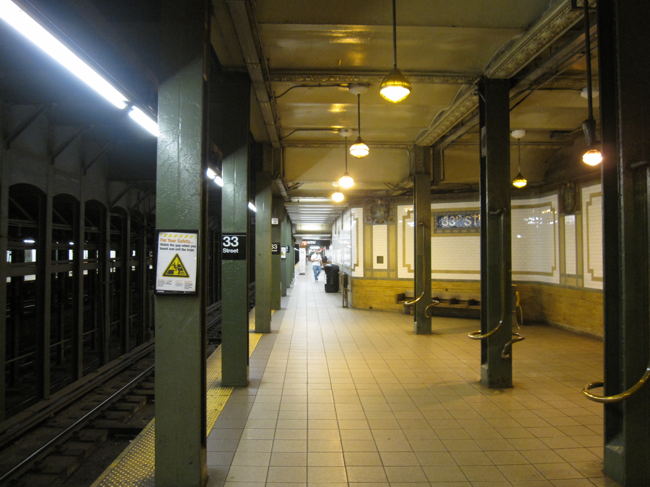 Downtown platform of the 33rd Street IRT station, looking south. To the right are James Garvey's bronze Lariat Seat Loops from 1997.